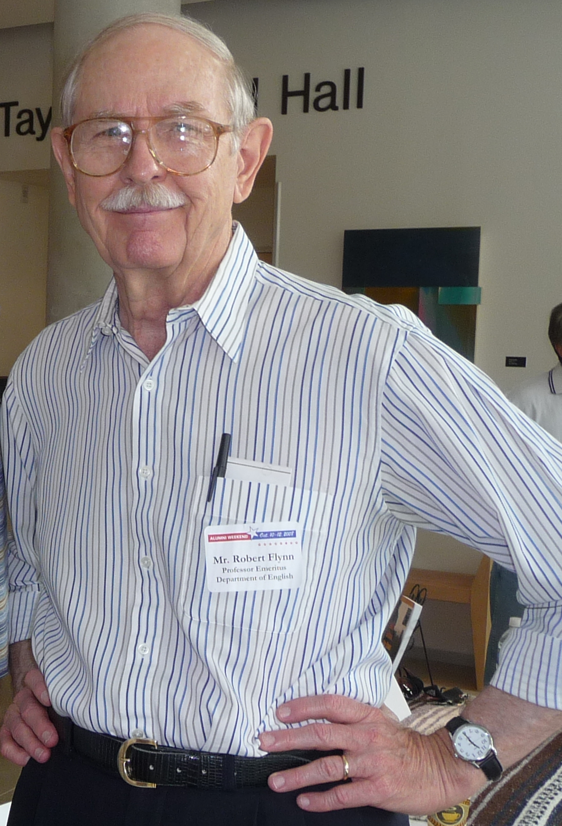 Texas author Robert Flynn at a book fair at Trinity University in San Antonio, Texas.